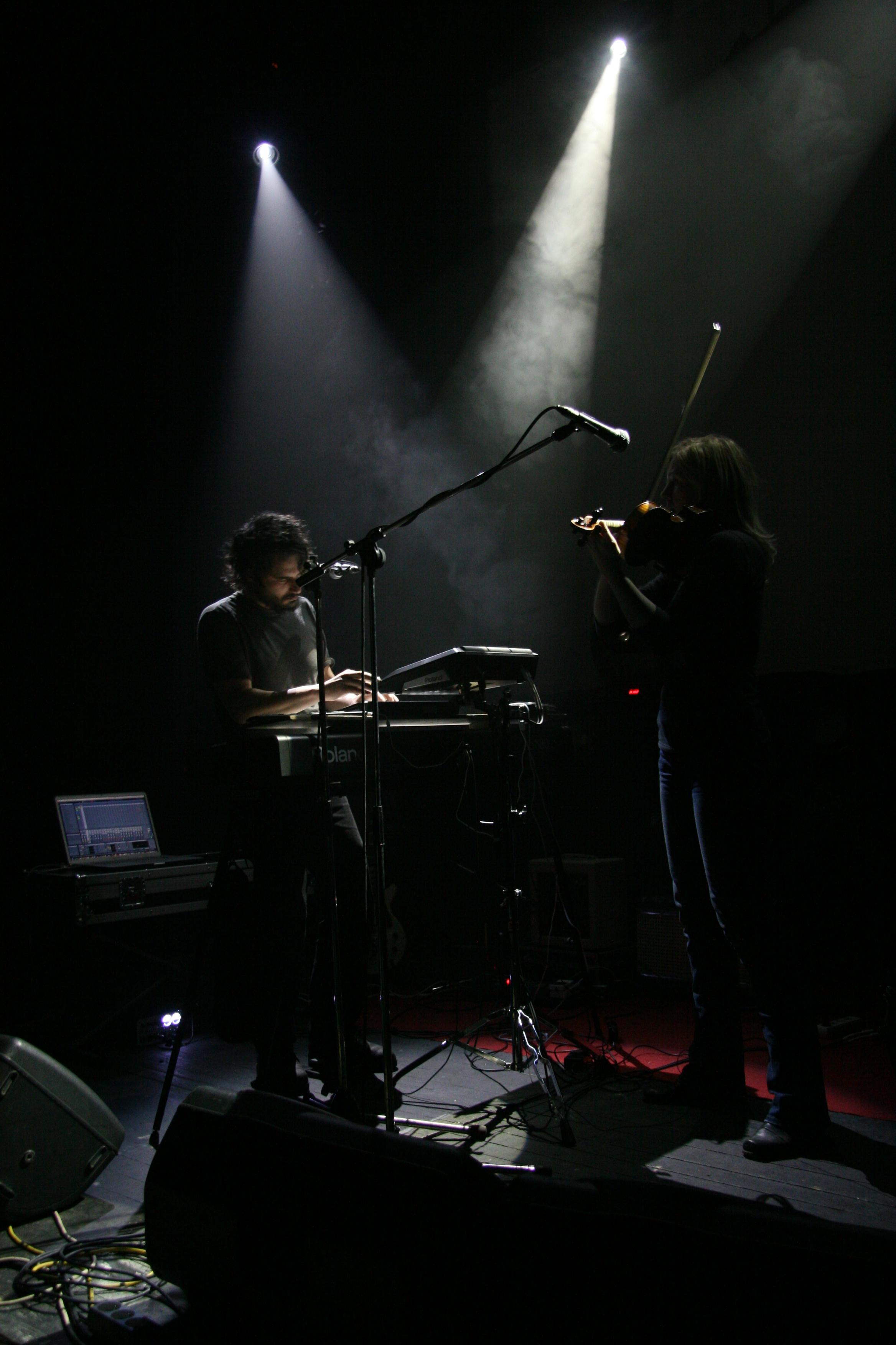 American band A Whisper in the Noise during the concert in Club Fléda, Brno, Czech Republic. 1st May 2012. Project: Fotíme Česko